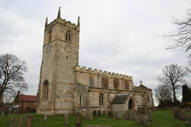 St.Wilfrid's church, Low Marnham. Now in the care of the Redundant Churches Fund, St.Wilfrid's has two early 13th century arcades and a superb ogee south doorway.